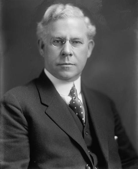 Jerome Donovan, New York Congressman